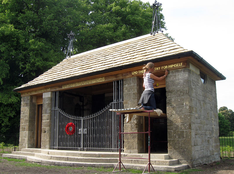 Stoneham War Shrine, Stoneham, Hants. UK